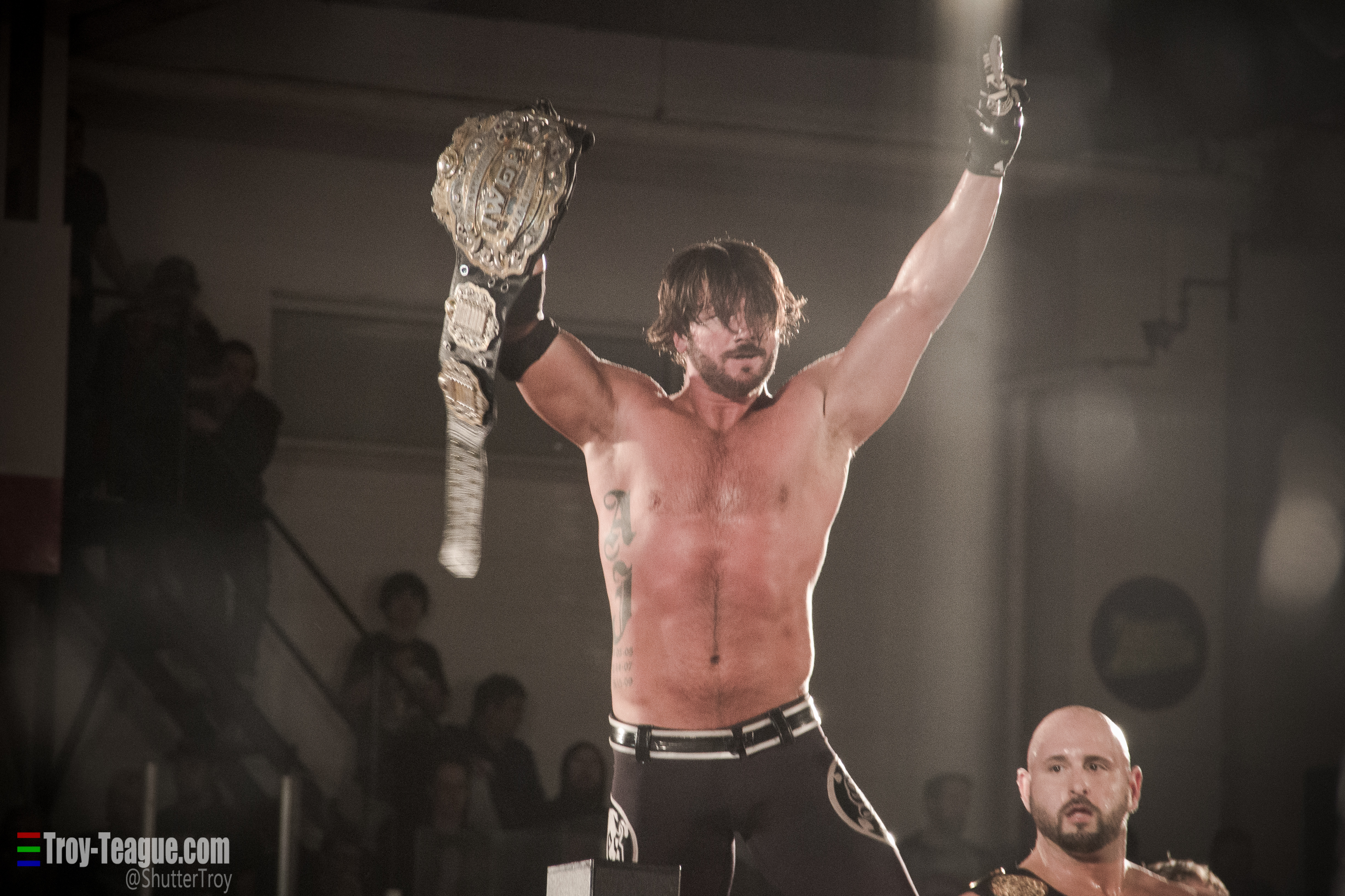 AJ Styles as the IWGP Heavyweight Champion at a Ring of Honor event in May 2014.